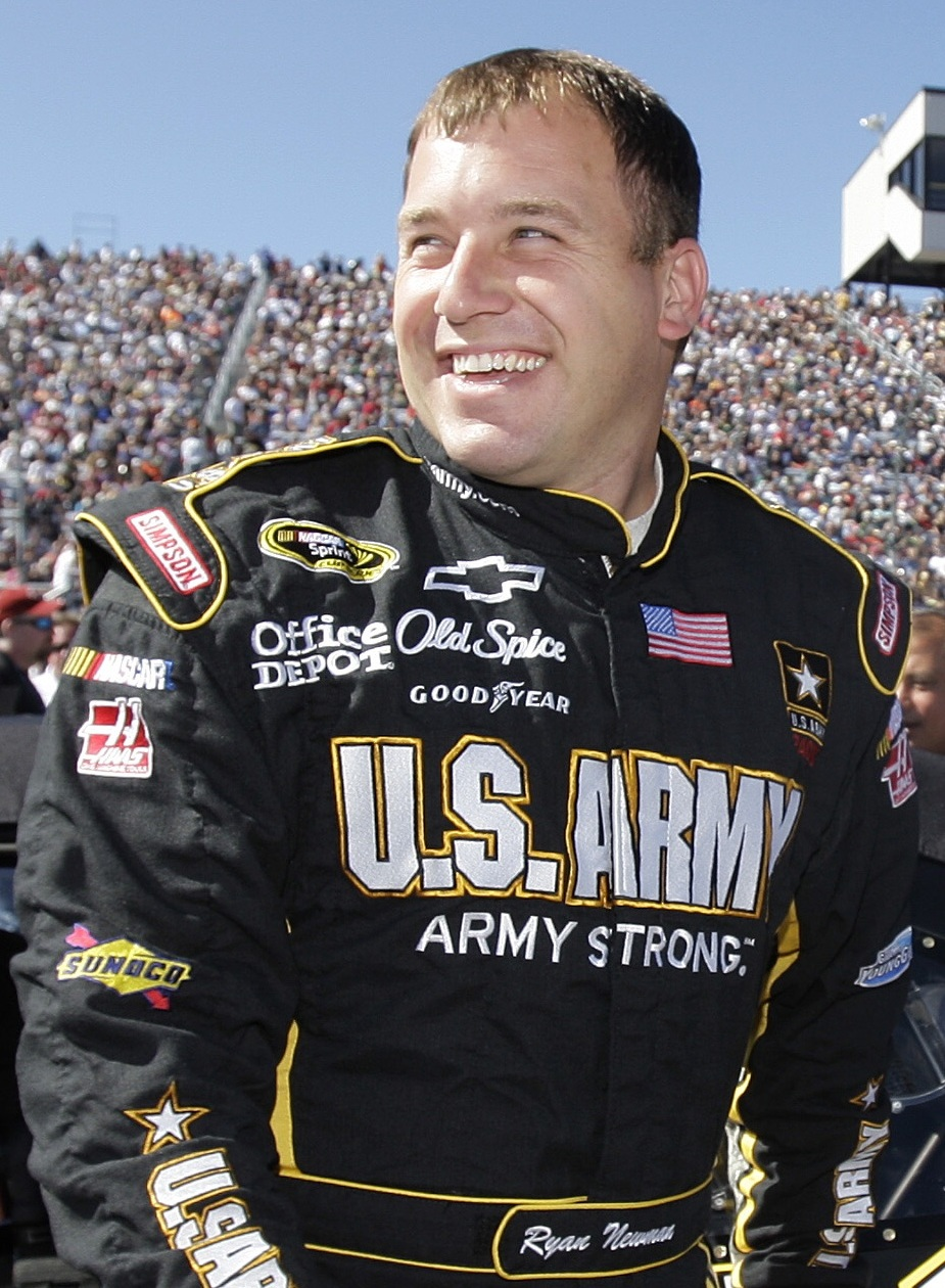 Ryan Newman stands beside his Number 39 Army Chevrolet Impala Sunday at the New Hampshire Motor Speedway. Newman finished the Sylvania 300, the first Chase for the Sprint Cup, in seventh place. (Cropped version focusing on Newman.)